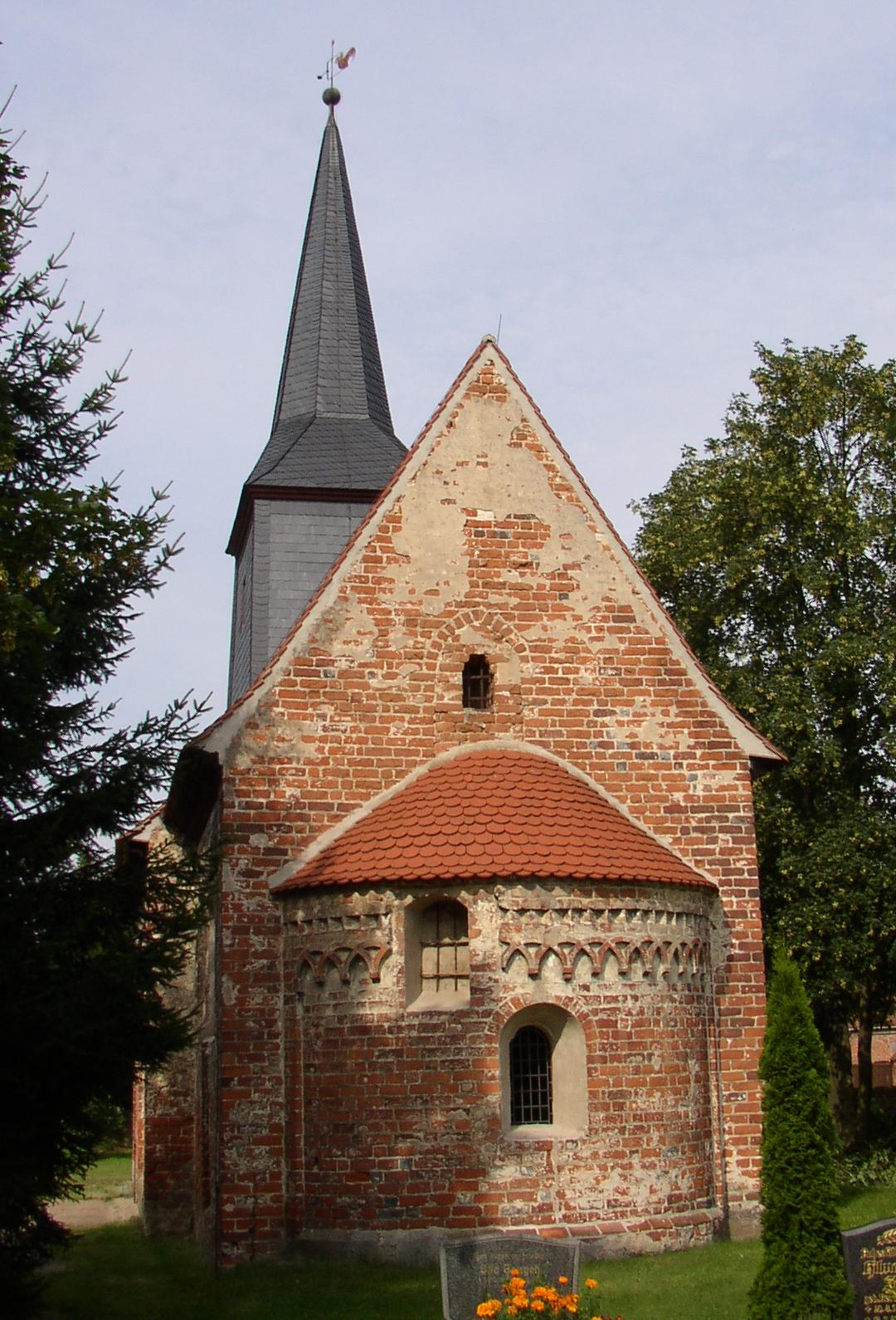 Church in Wulkow-Kleinwulkow in Saxony-Anhalt, Germany